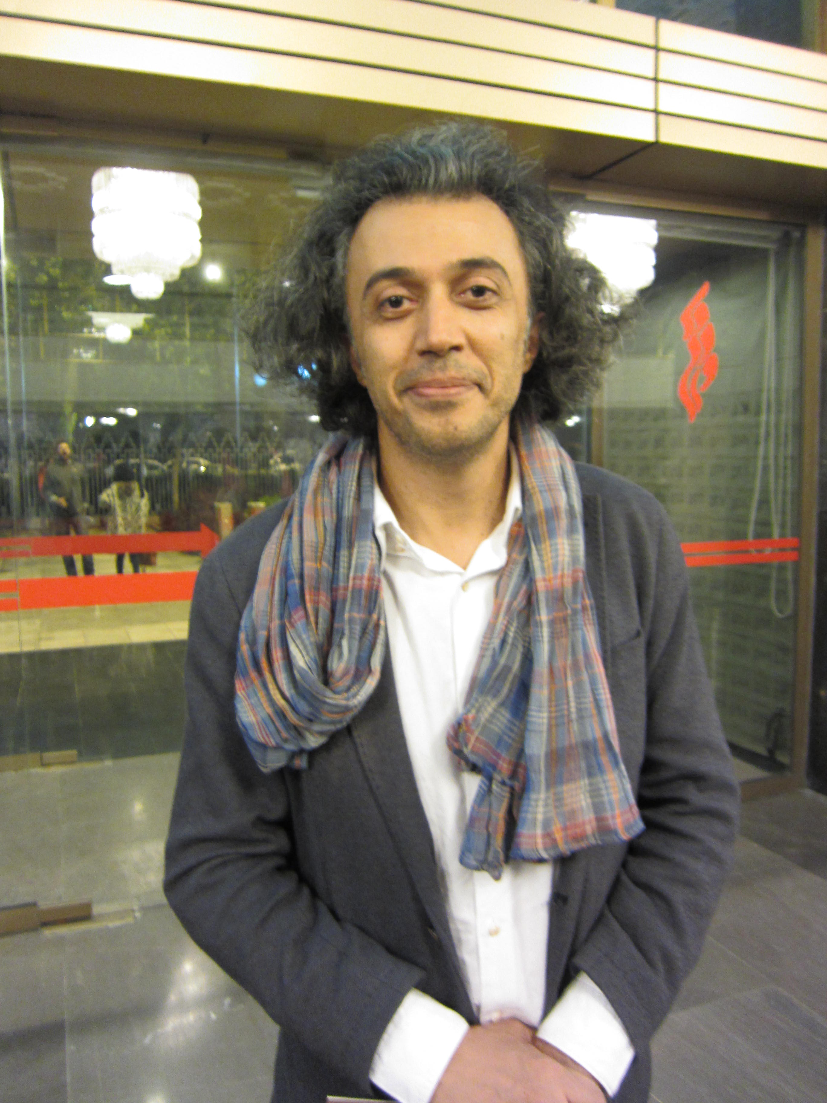 Peyman Yazdanian at the Vahdat Hall, Tehran